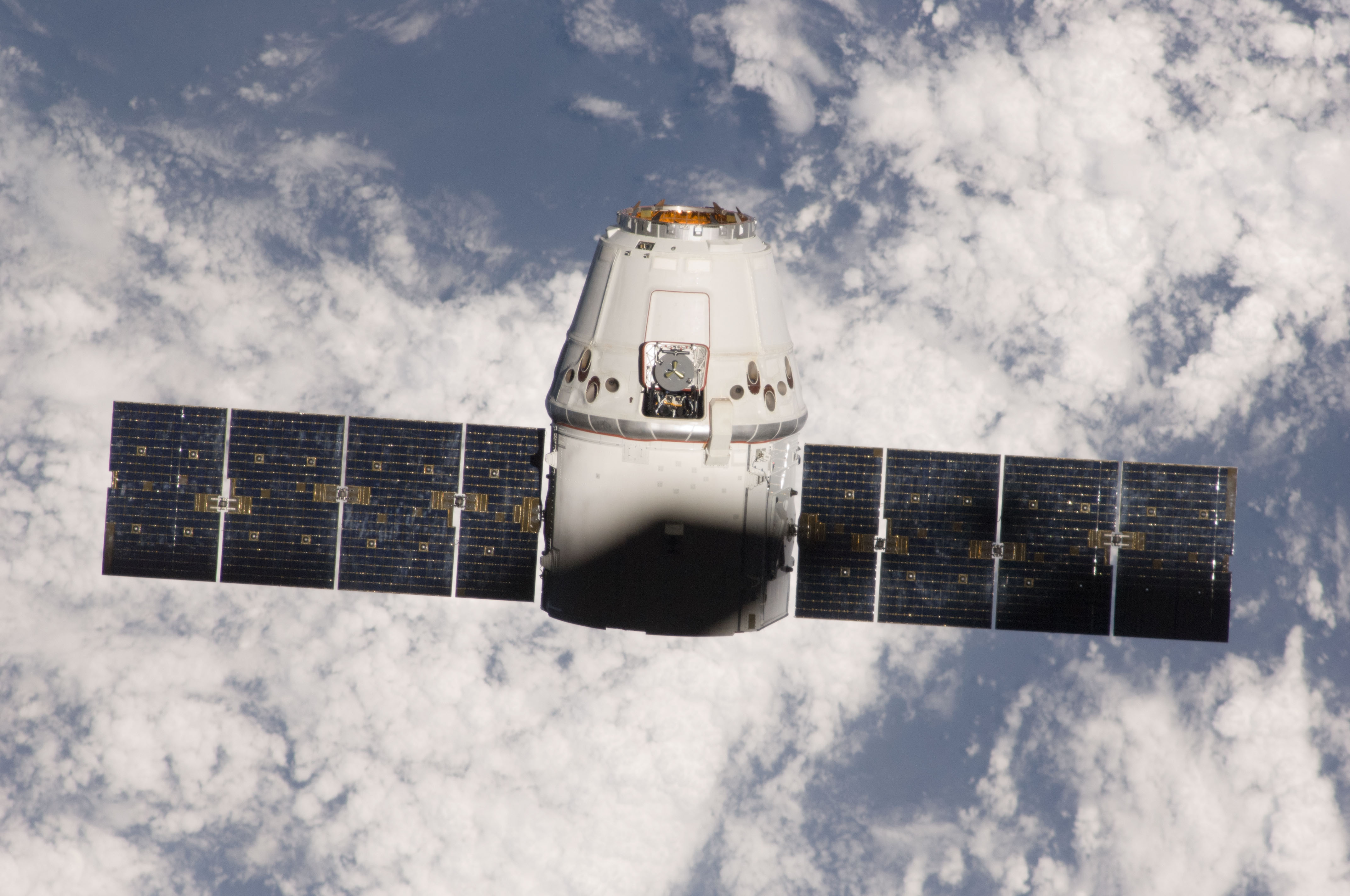 ISS031-E-083408 (25 May 2012) --- Backdropped by clouds, the SpaceX Dragon cargo craft makes its relative approach to the International Space Station prior to grapple by the station's Canadarm2 robotic arm, controlled by the Expedition 31 crew members.